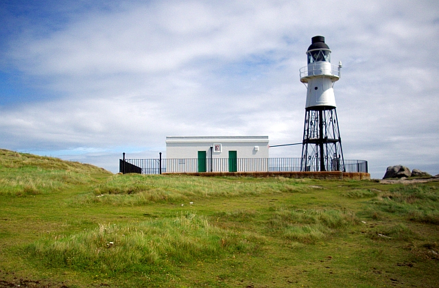 Peninnis Head lighthouse. Looking lovely in the sunlight with a gentle warm breeze blowing. The weather can change very quickly to horizontal rain. The building next to the light house bears a crest : 934813